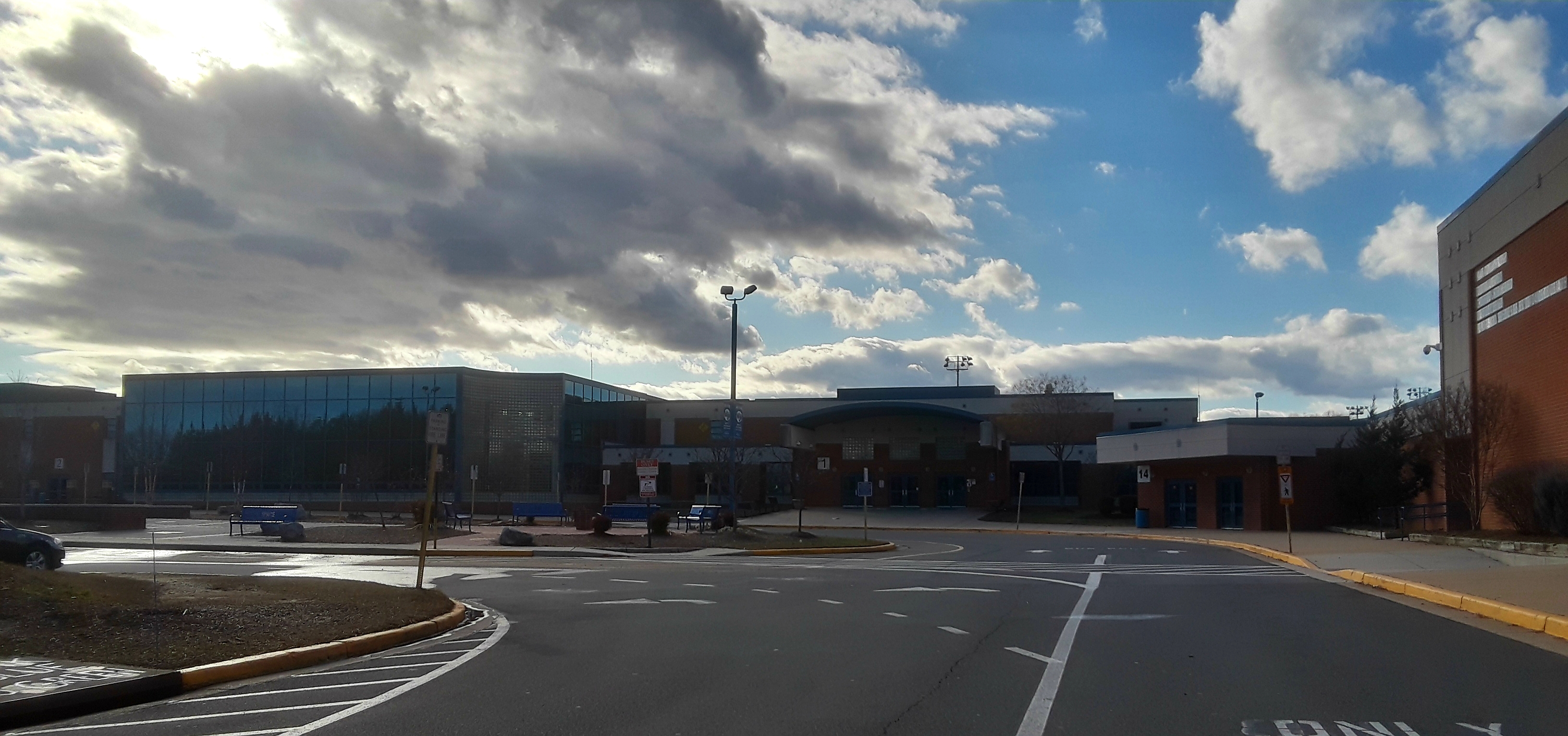 West Potomac High School